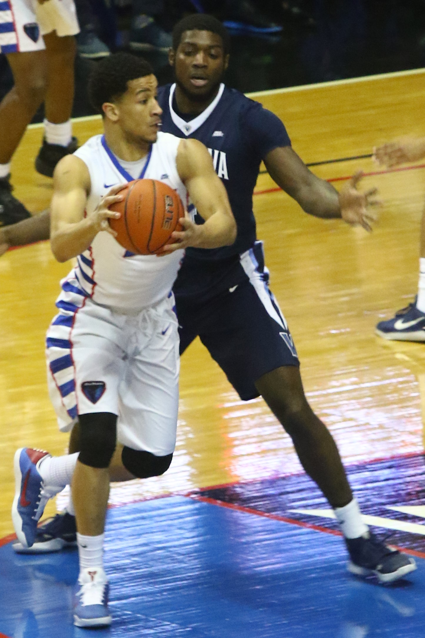 Billy Garrett, Jr. for the w:2016–17 DePaul Blue Demons men's basketball team at Allstate Arena